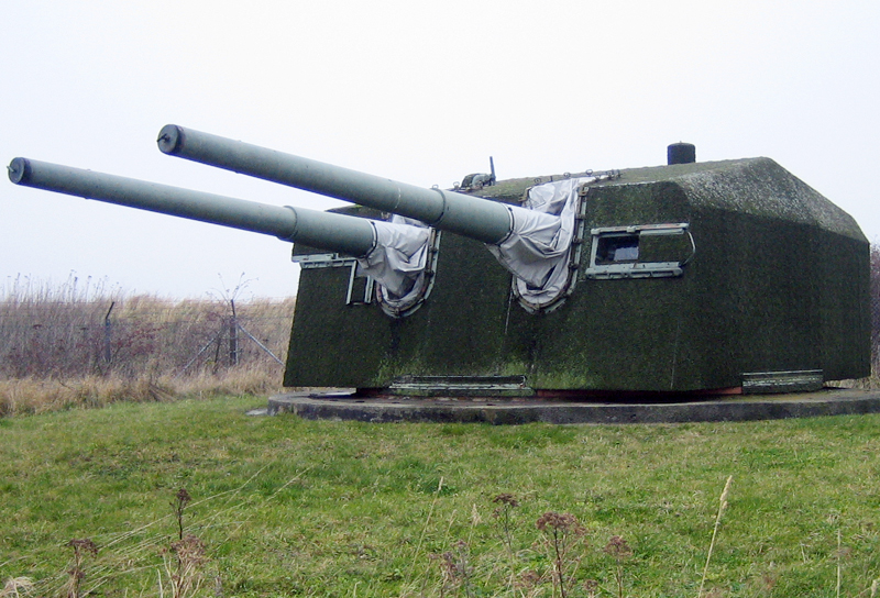 Cannon on Stevns, Denmark, taken from the German battleship Gneisenau